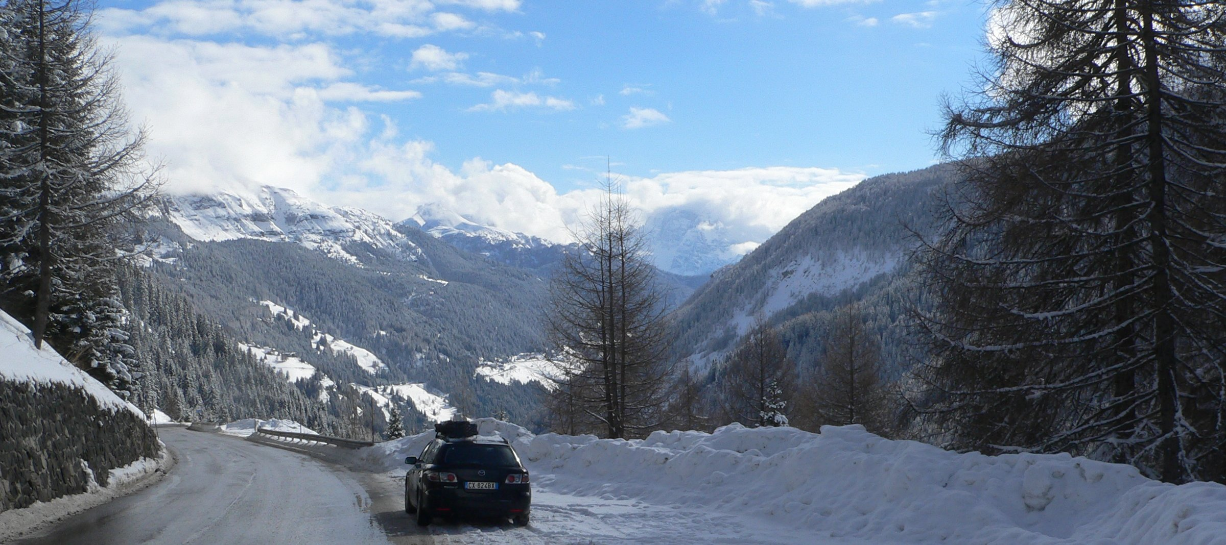 Livinallongo_del_Col_di_Lana, municipality of Italy, image by myself